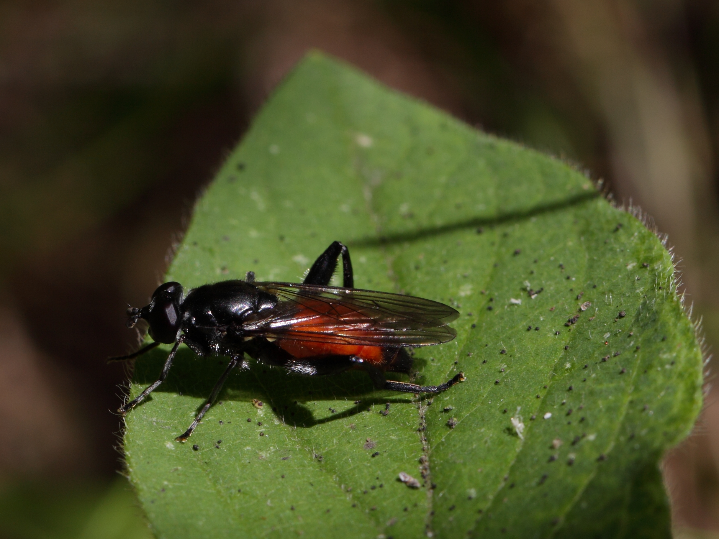 Phylum: Arthropoda Subphylum: Hexapoda Class: Insecta (insects, Insekten) Subclass: Pterygota Order: Diptera (Zweiflügler) Suborder: Brachycera (true flies, Echte Fliegen) Infraorder: Muscomorpha [Syn.: Cyclorrhapha (Deckelschlüpfer)] Superfamily: Syrphoidea Family: Syrphidae (hover flies, Schwebfliegen) Subfamily: Eristalinae Tribus: Milesiini RONDANI, 1845 Subtribus: Xylotina Genus: Xylota s.l. MEIGEN, 1822 (Langbauchschwebfliege) i.e. Xylota s.s. or Chalcosyrphus or Brachypalpoides [det. D&JP Balmer, 2012, based on this photo] NE-Slovakia, Slovak Paradise (Slovak: Slovenský raj) National Park, vic Cingov, 600-800m asl., 27.06.2012 _____________________________________________________________________ 100mm (canon 2.8), 1/160 s, f/9.0, ISO100, 0EV, no flash, hand-held IMG_1433